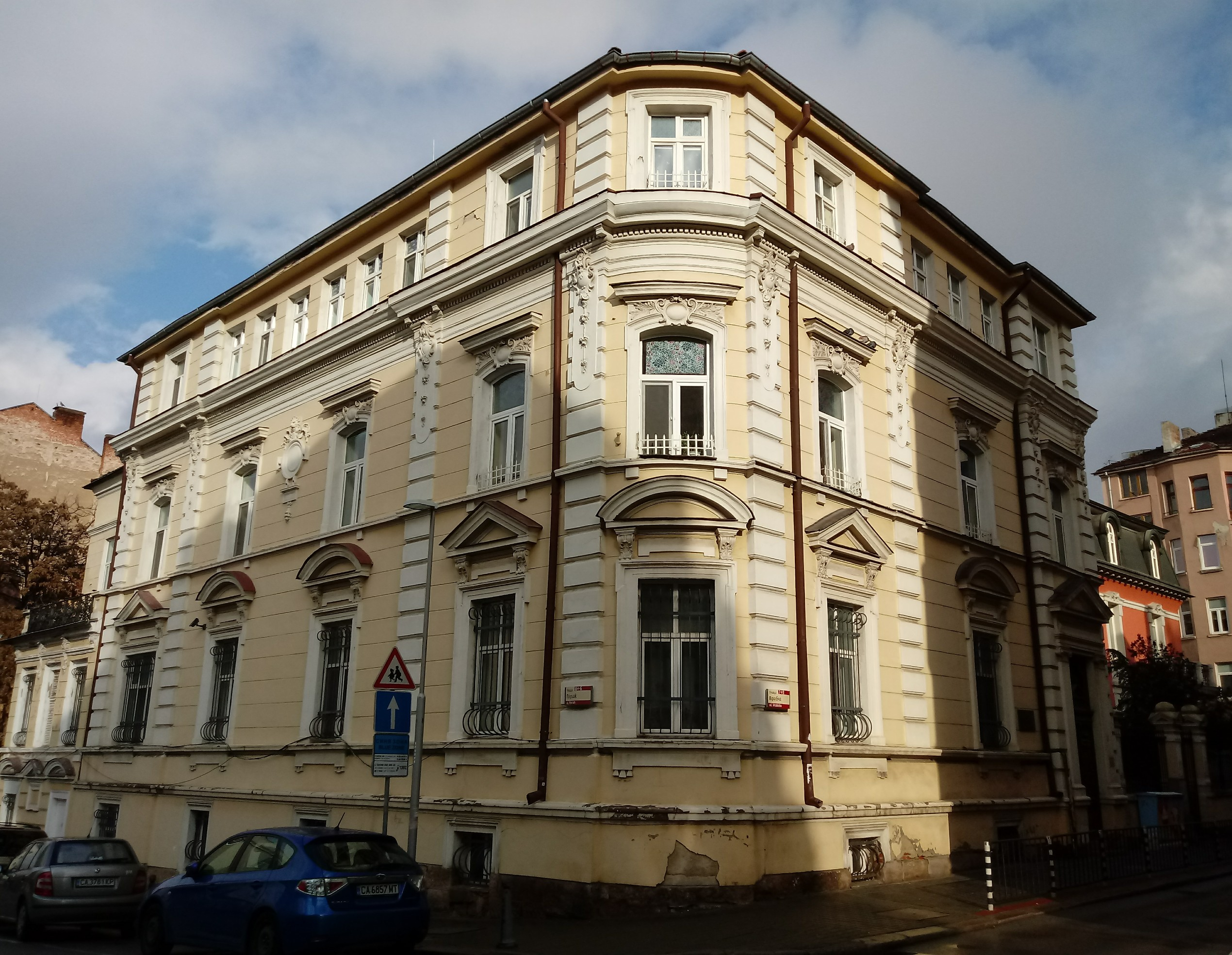 Todor Burmov and Stoyan Danev home with memorial plaque, 7 "Vrabcha" Str., Sofia